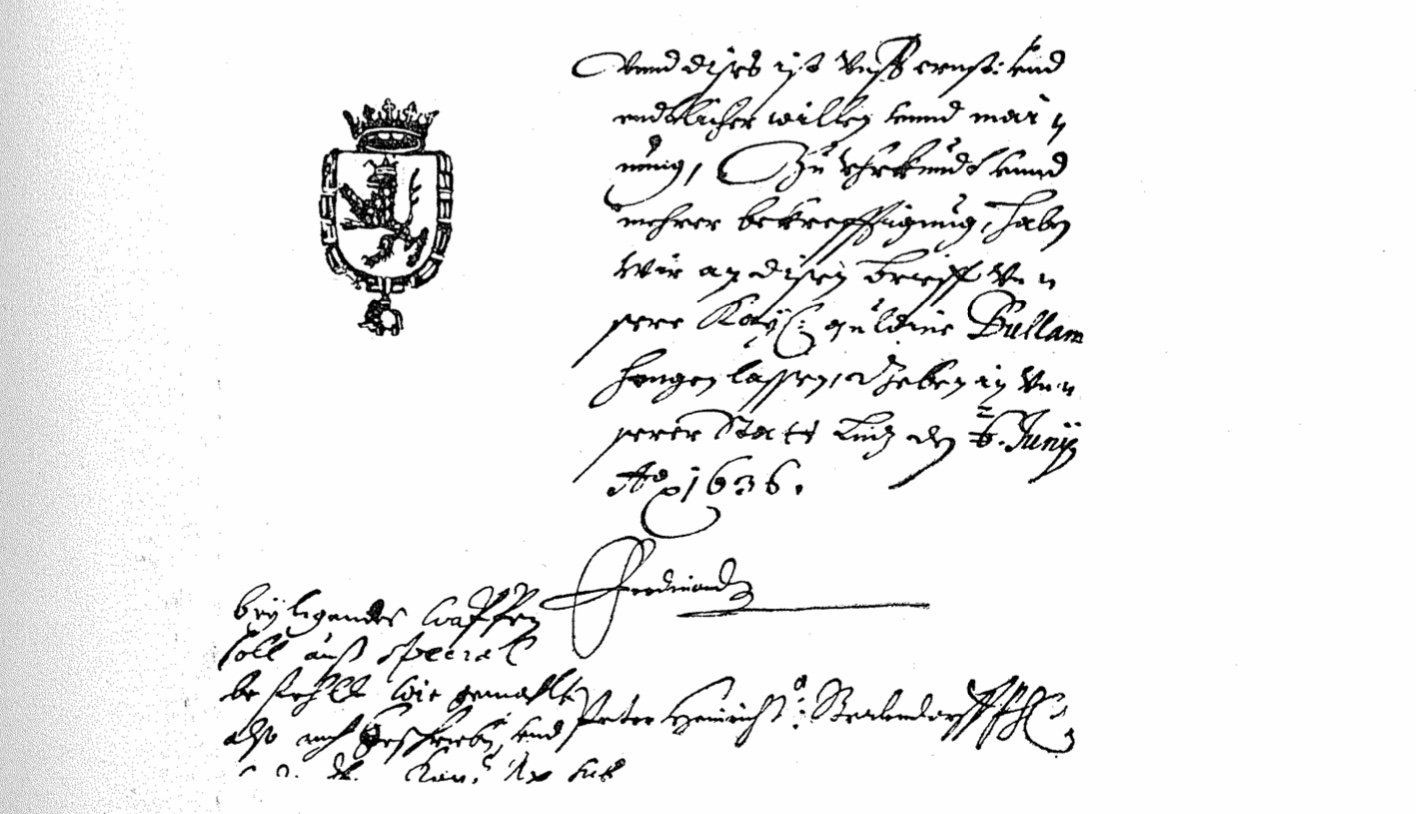 Grafendiplom Christian v. Pentz